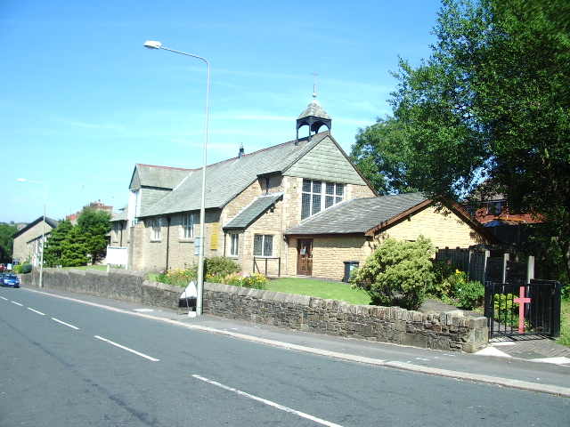 St Barnabas Parish Church, Water Lane, Darwen